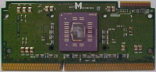 Inside of AMD Slot A Athlon Thunderbird 900 MHz. Part number AMD-A0900MMR24B A.